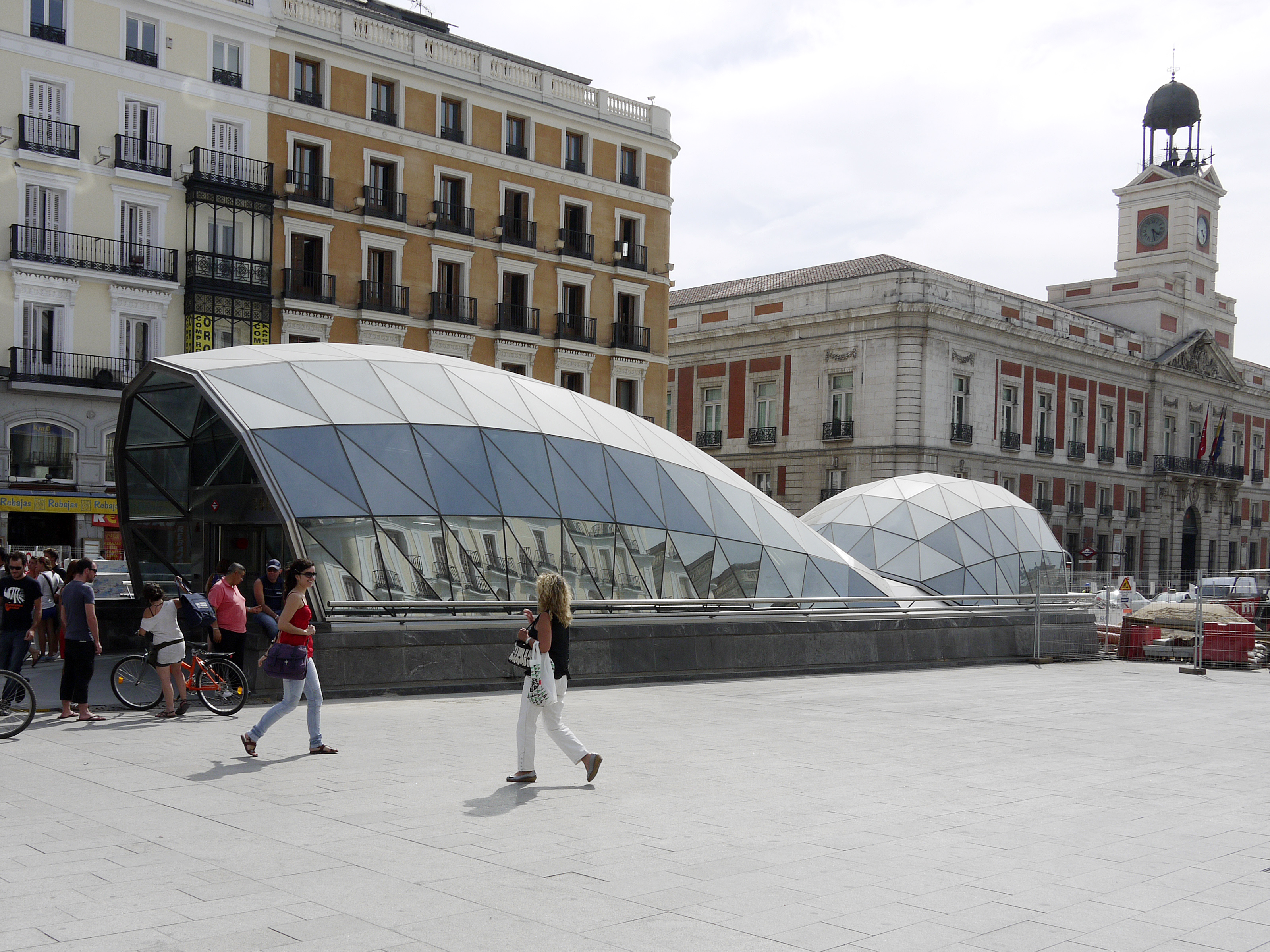 Puerta del Sol, Madrid, Spain